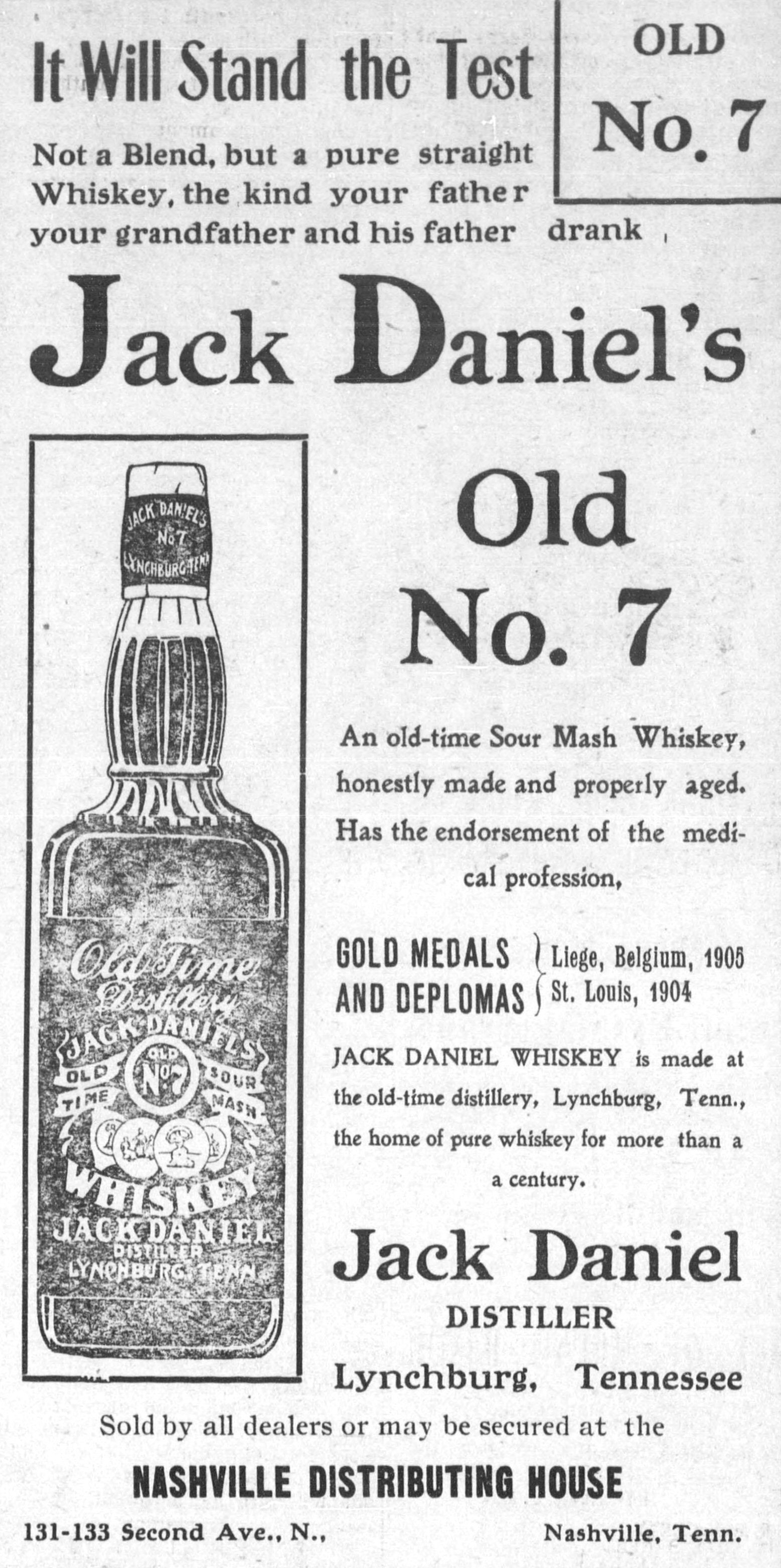 Ad for Jack Daniel's in a 1908 issue of The Nashville Globe